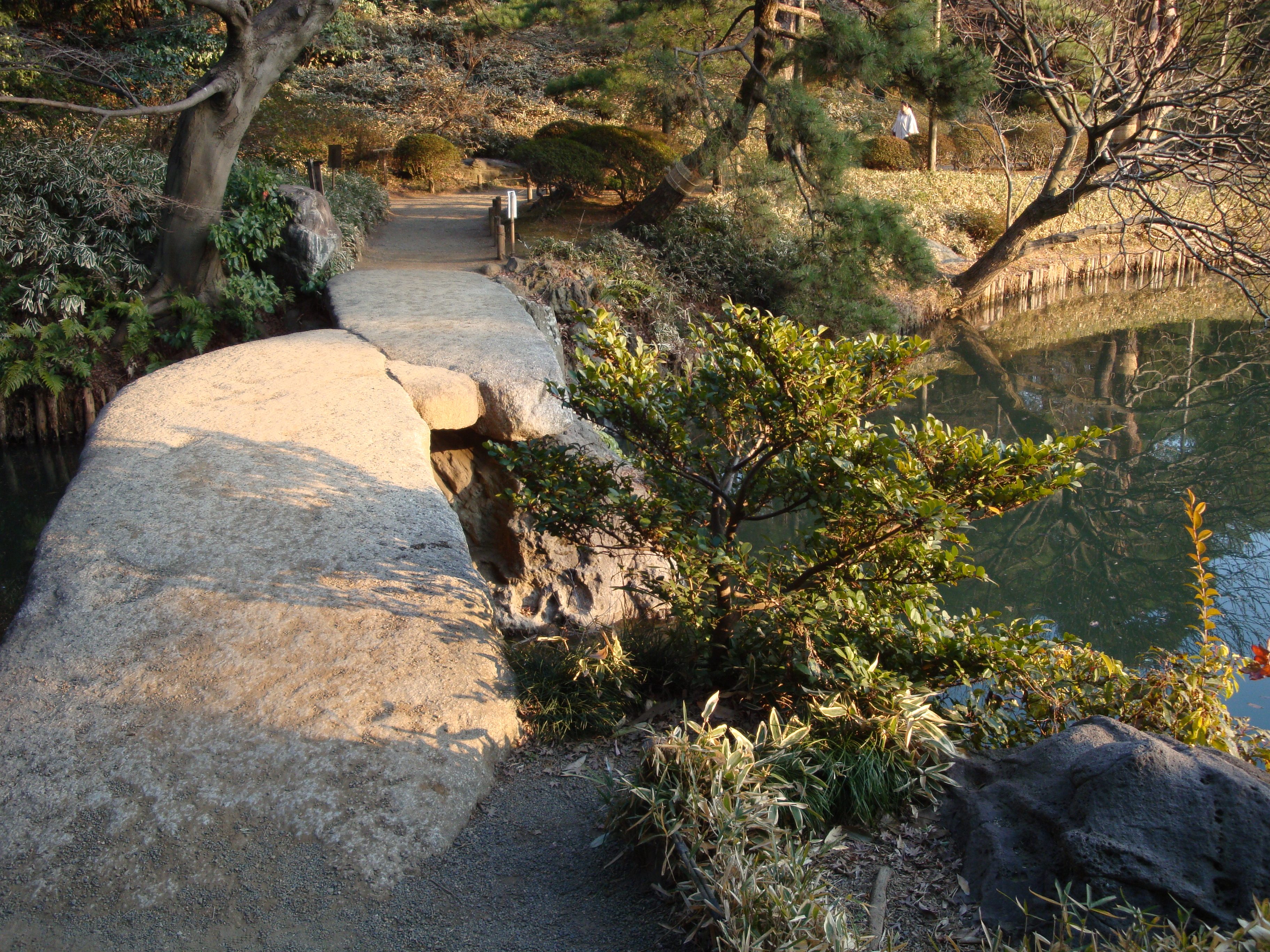 Togetsukyo bridge in Rikugien